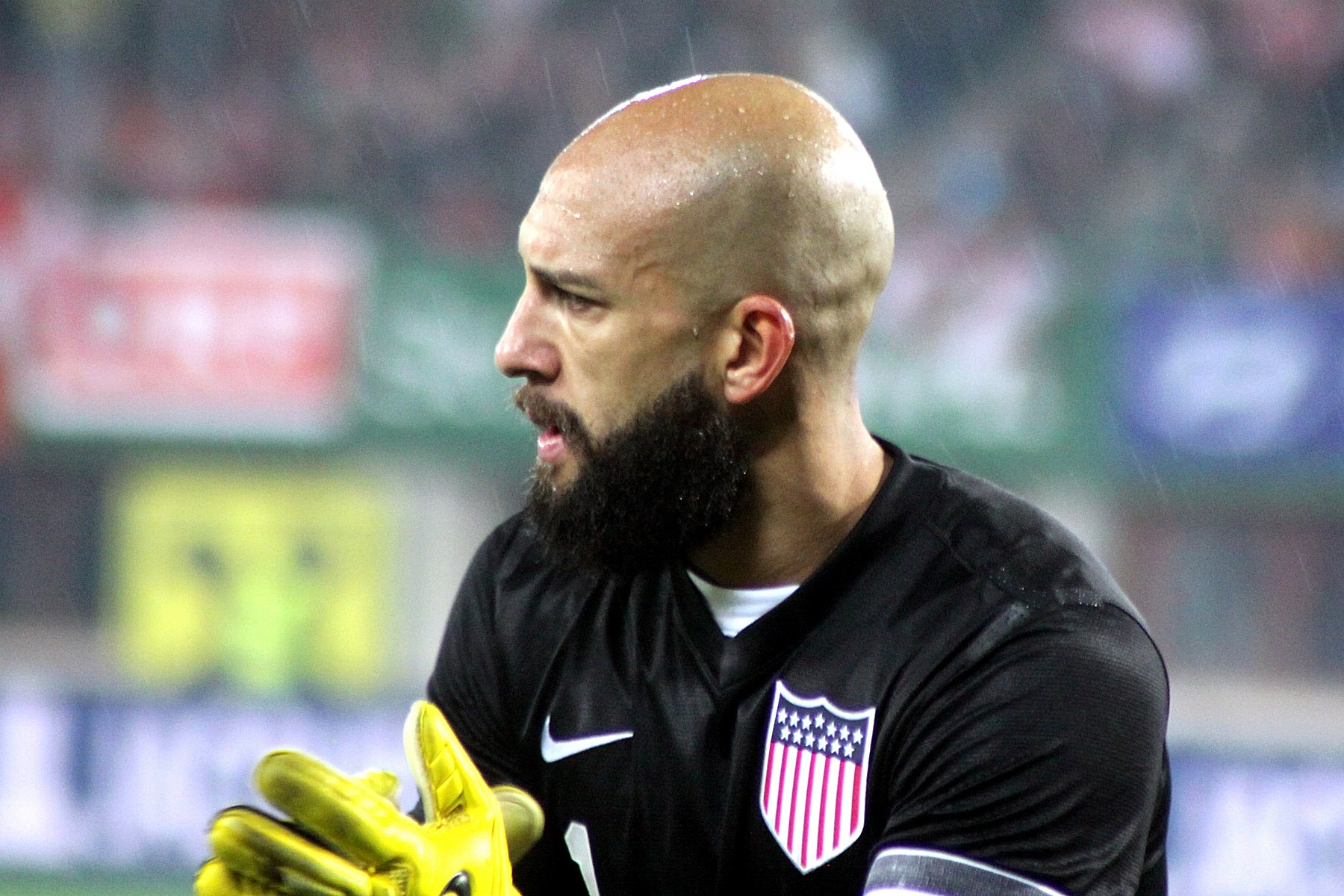 Friendly-match Austria vs. USA (1:0) in the Ernst-Happel-Stadion in Vienna at 2013-03-22. – The photo shows Tim Howard (USA).